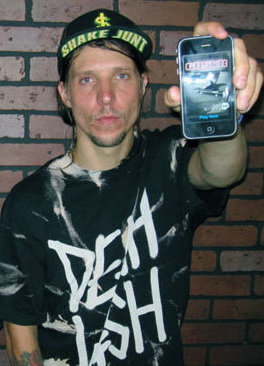 Erik Ellington as the new face of the GoSk8 mobile app. Image cropped from original. Not shown: Geoff Rowley.